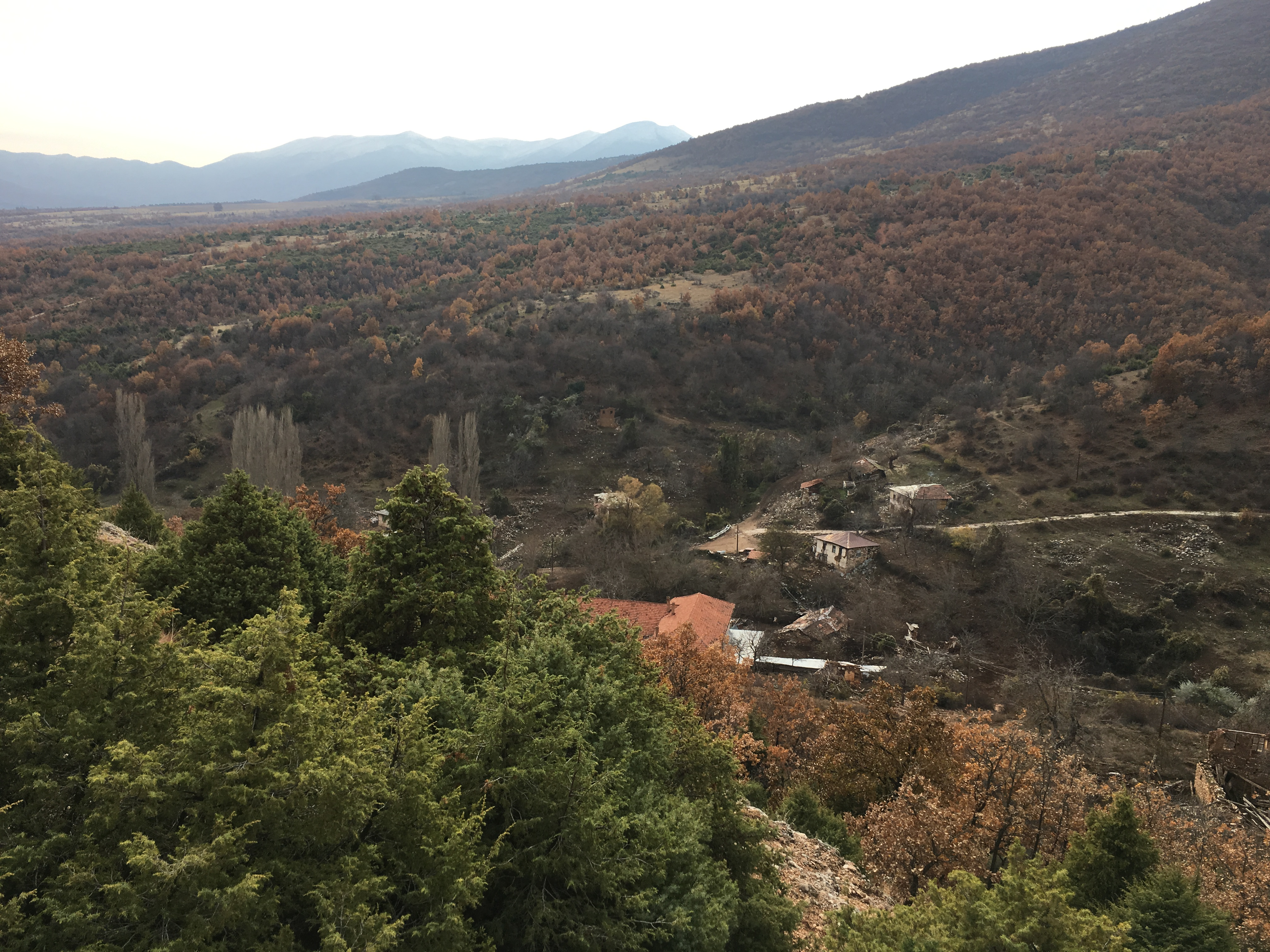 Panoramic view of the village of Rakle